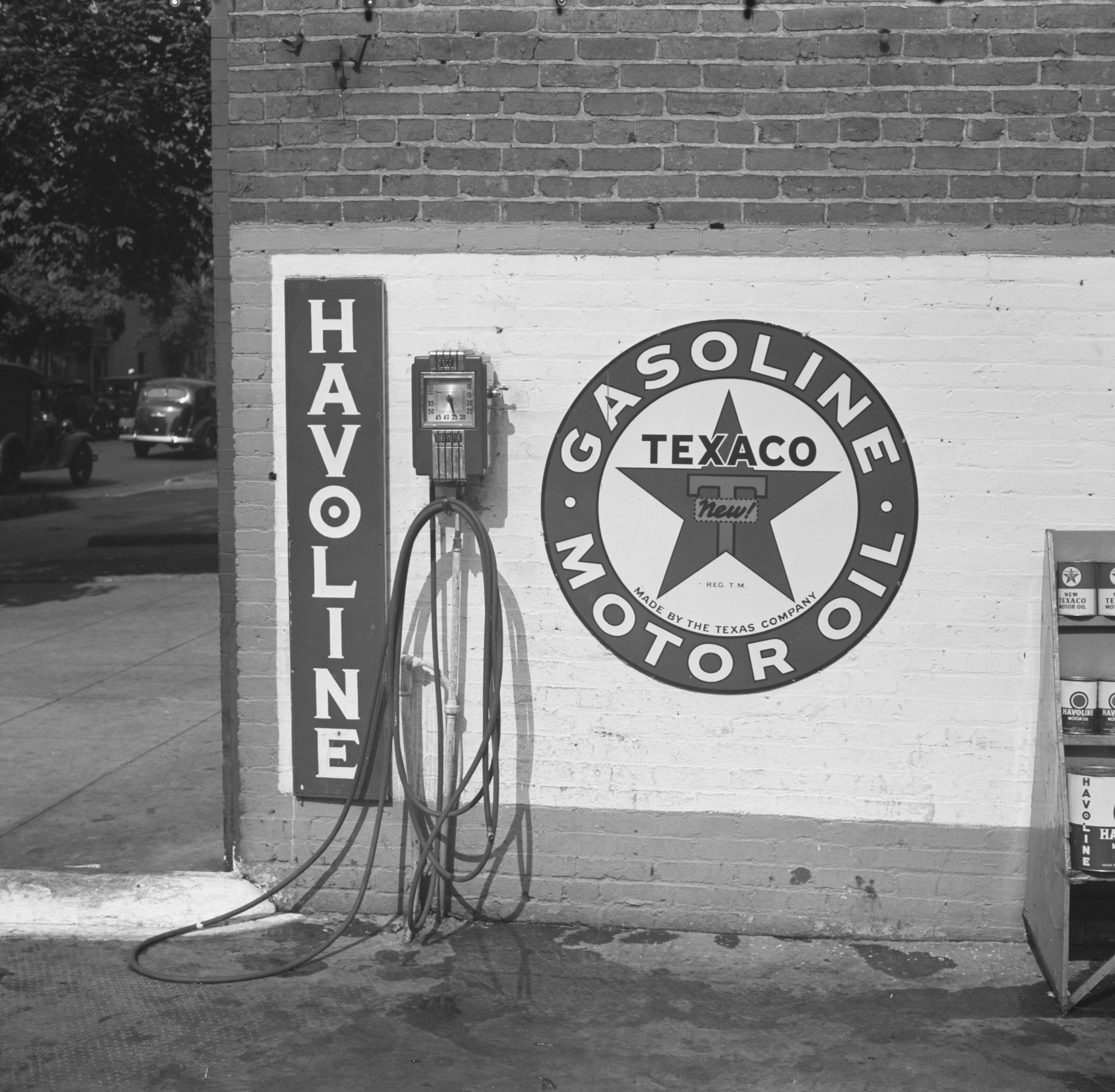 Untitled